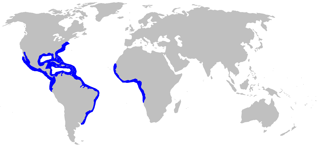 Distribution map for Negaprion brevirostris